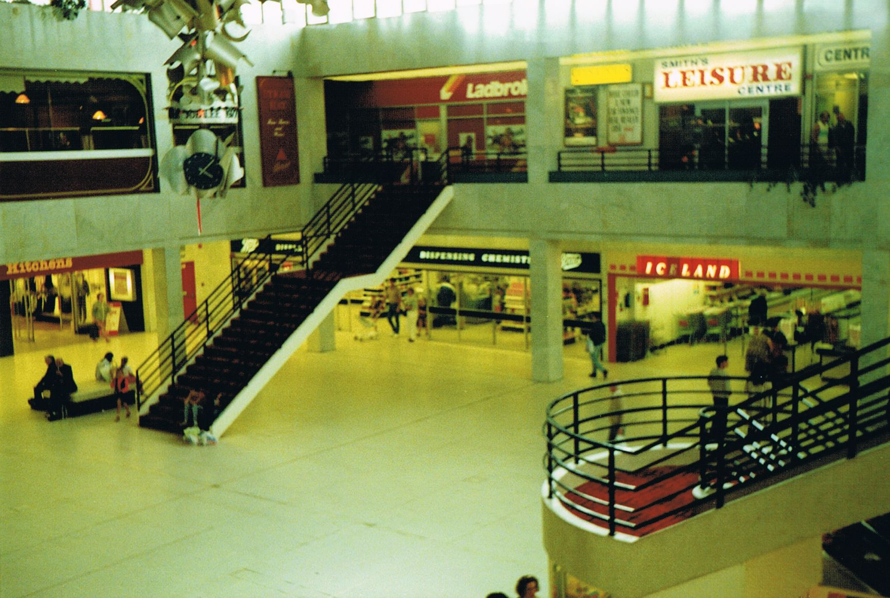 Photo of Shopping City in Runcorn, Cheshire, UK, taken in August 1989